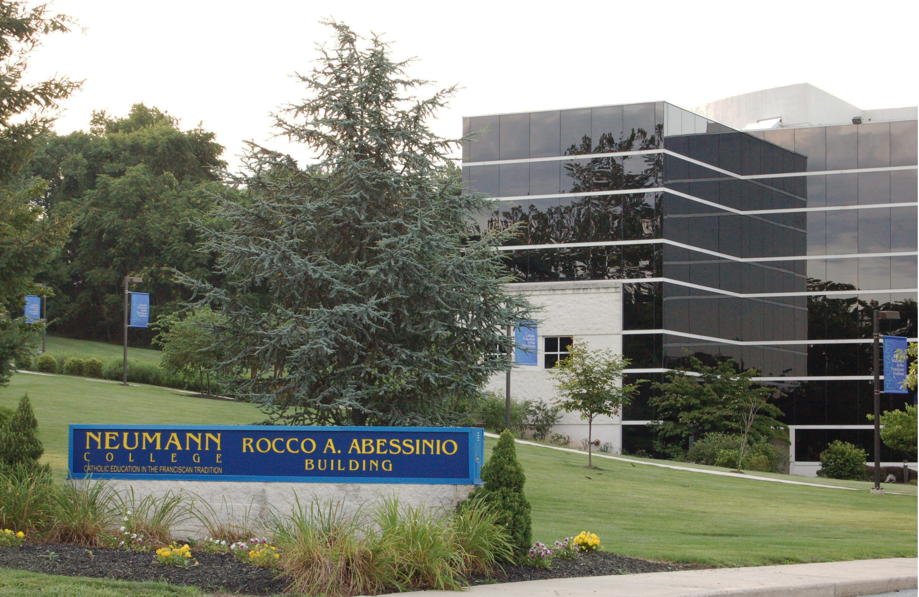 A photograph of the Abessinio Building on the Neumann College campus in Aston, Pennsylvania.